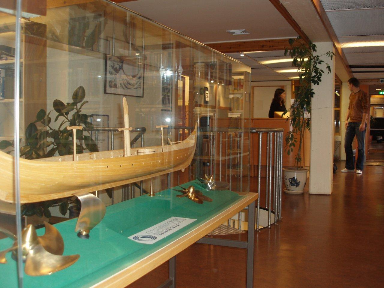 The Marine Technology Library; part of The NTNU University Library, Trondheim, Norway